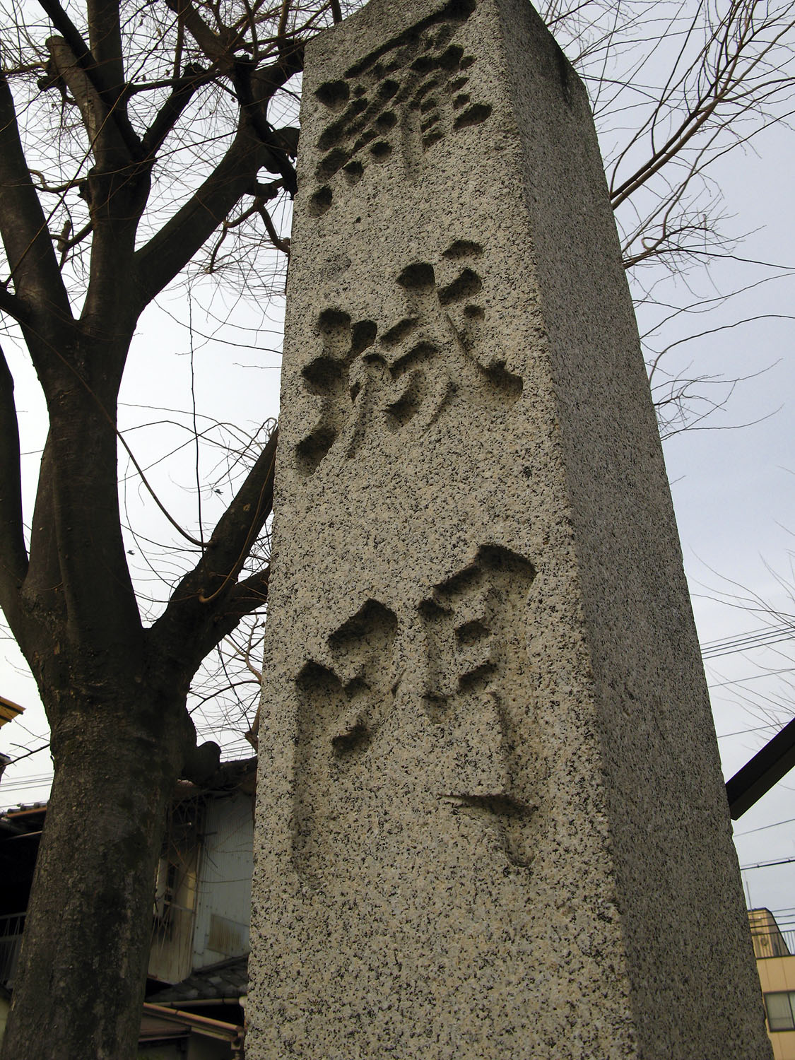 This marker shows the site of the former Rajōmon (Rashōmon), the great south gate to the city of Kyoto, Japan. I took the photo.